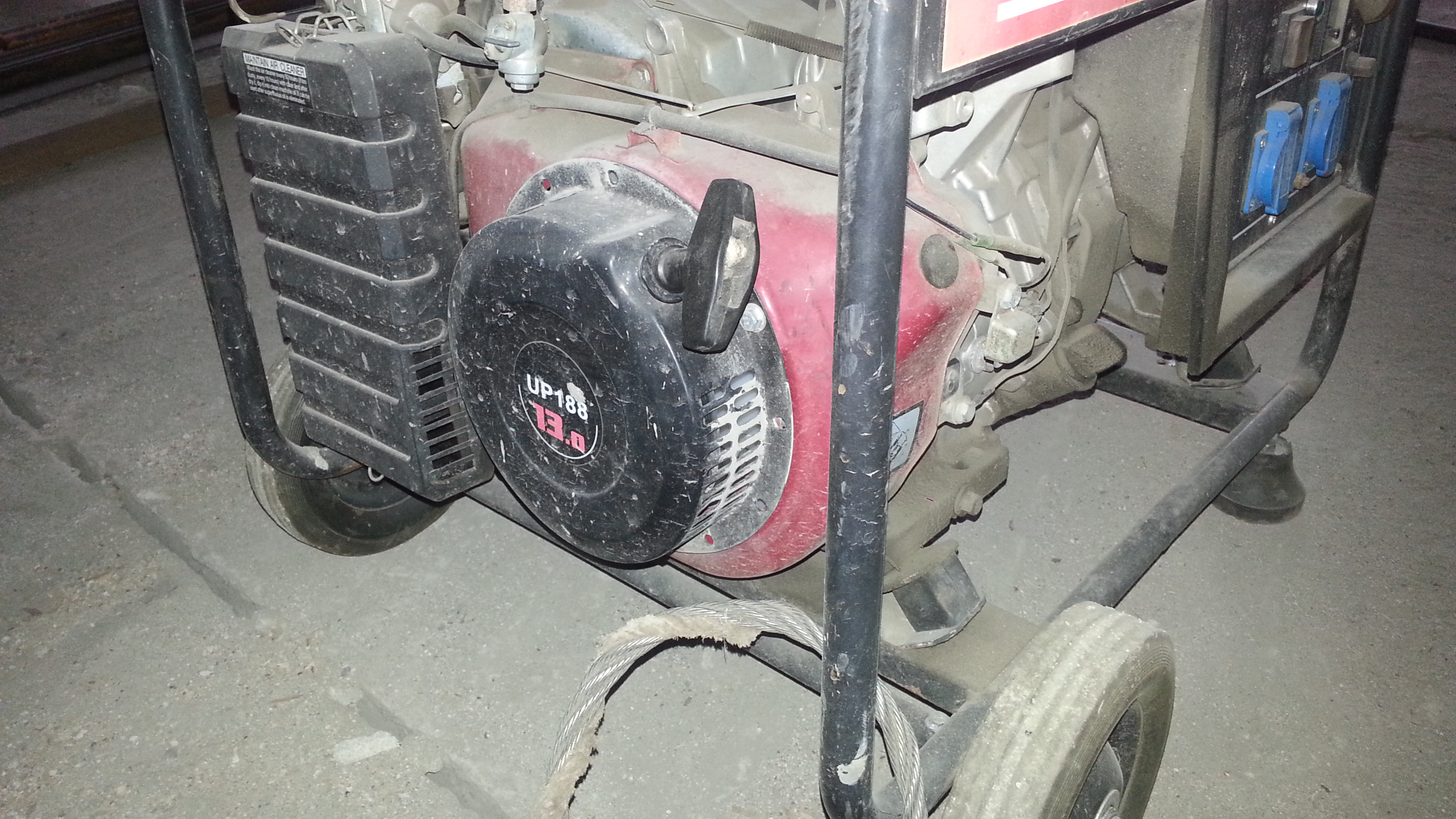 Petrol engine-generator Unitedpower GG 6200 based on chines clone of Honda GX-390 engine